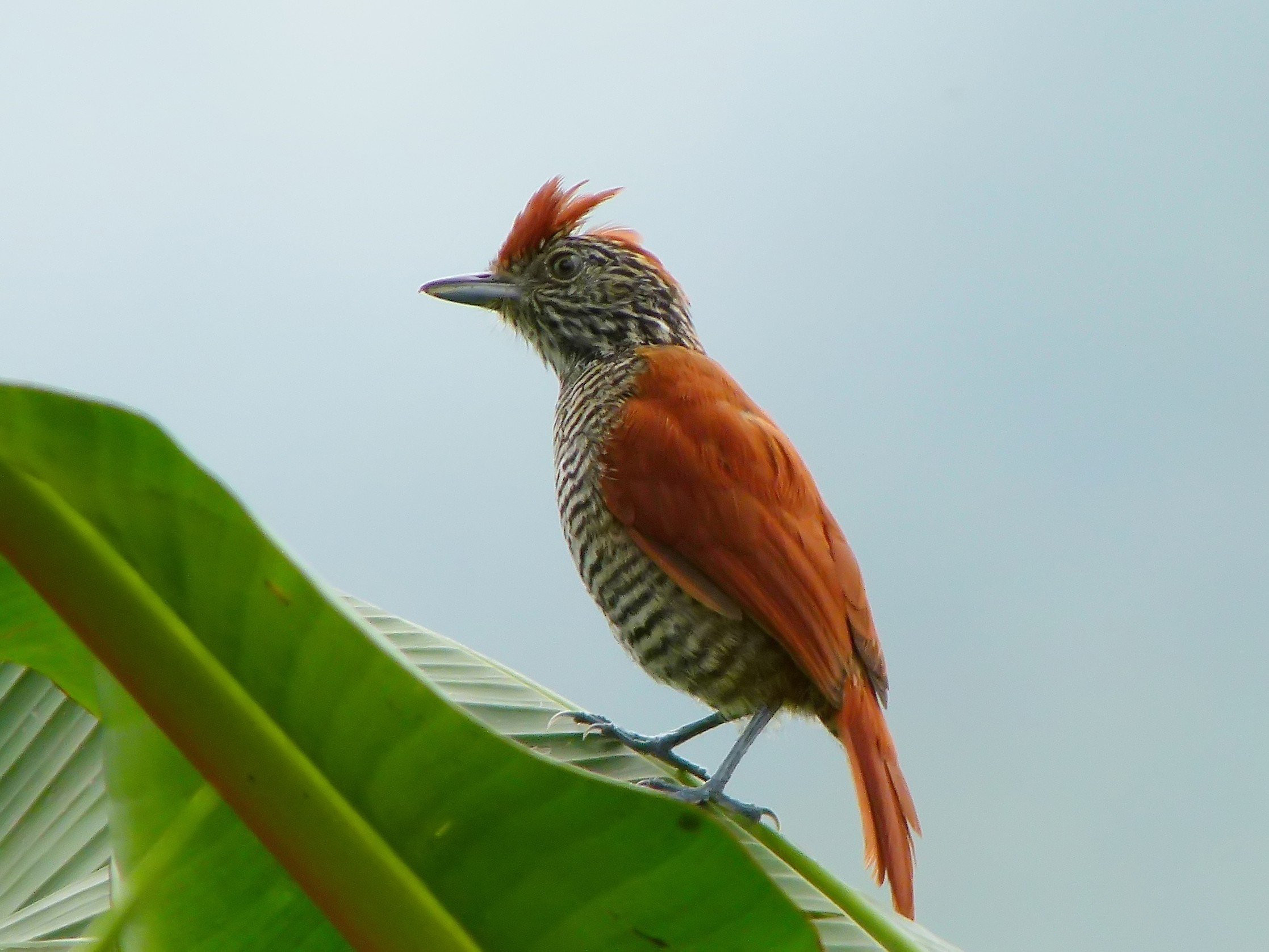 A female Bar-crested Antshrike in Manizales, Colombia.